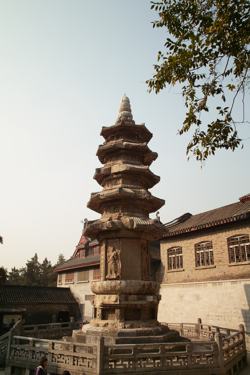 The Śarīra pagoda — at Qixia Temple in Nanjing, Jiangsu Province. It was built in 601 CE. It was rebuilt in the 10th century.